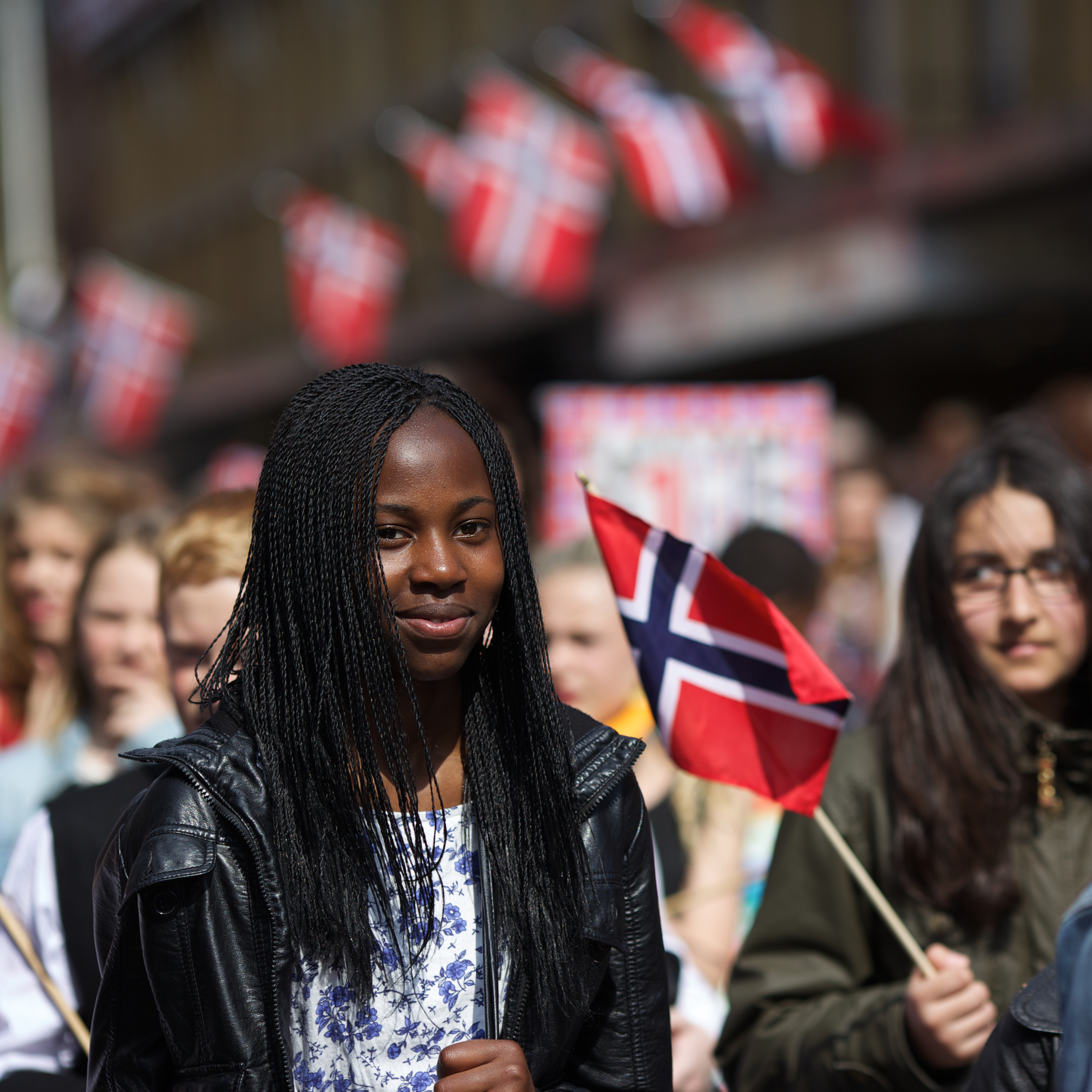 5D Mark II | 135L | Manual focus